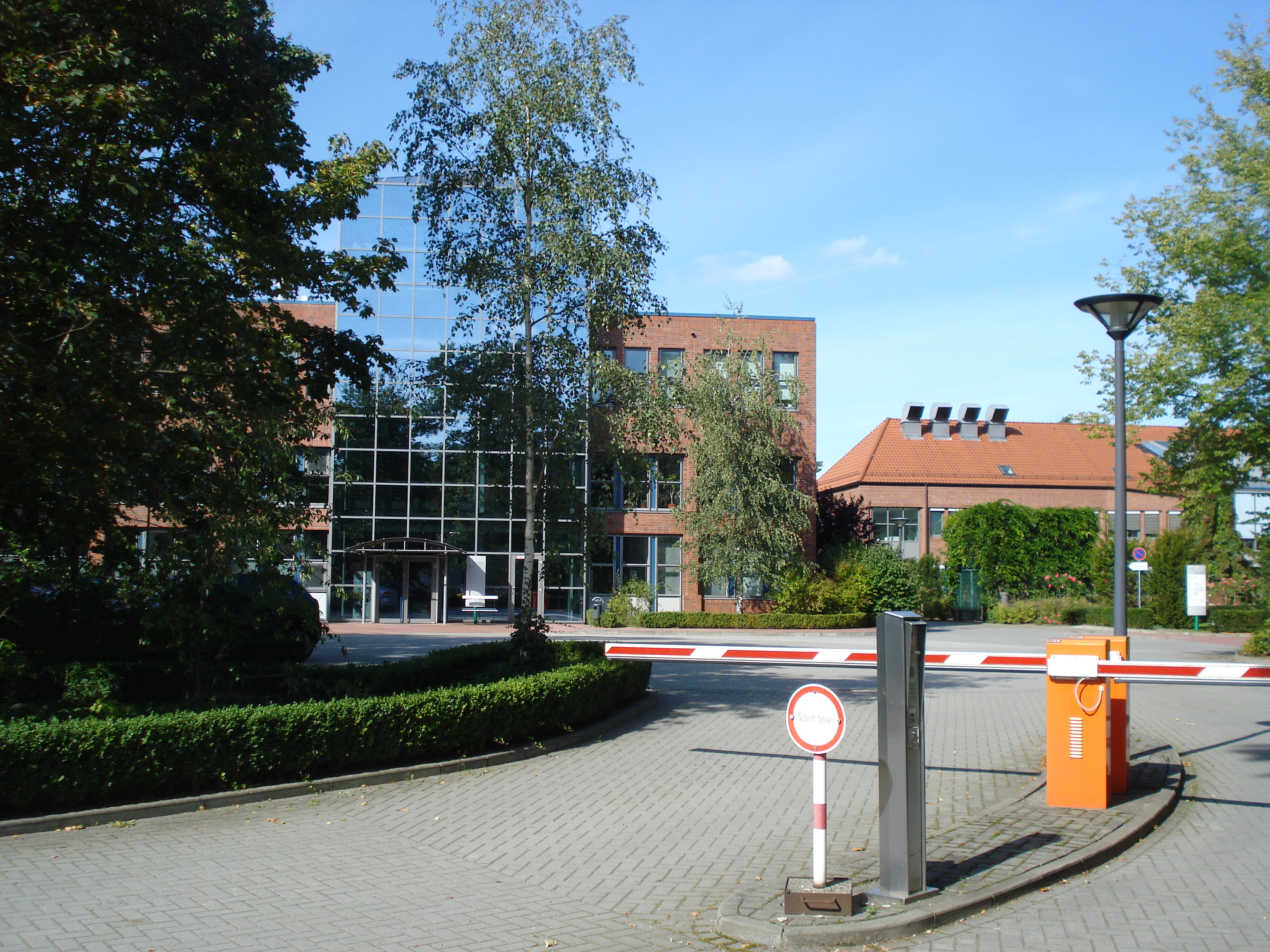 Entrance of campus V of the German Institute of Human Nutrition (Deutsches Institut für Ernährungsforschung).